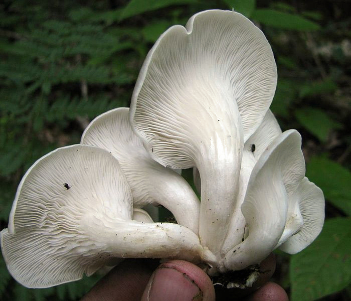 Pleurotus cornucopiae Location: Krasnogorsk, Moscow oblast, Russia For more information about this, see the observation page at Mushroom Observer.